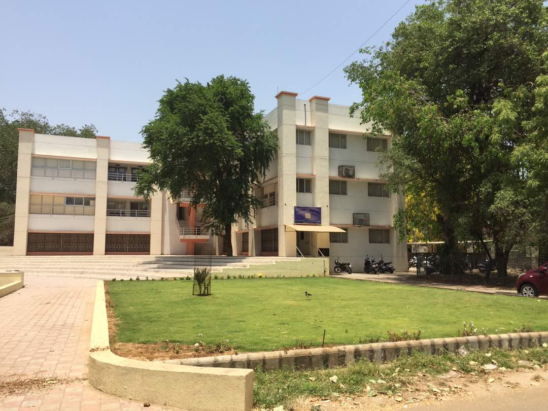 Front view of the building.